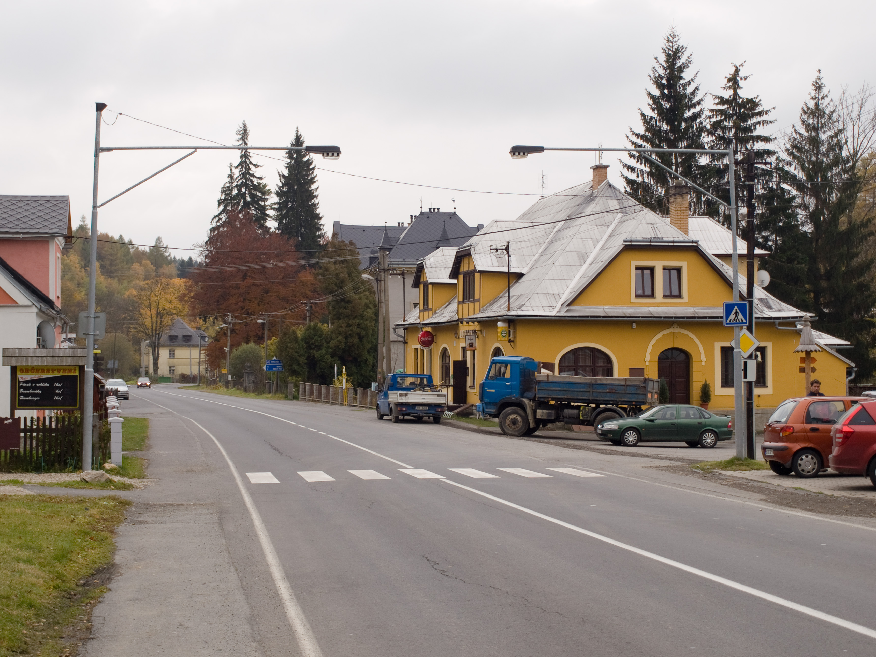 Malá Morávka, Bruntál District, Czech Republic